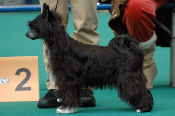 Powderpuff Chinese Crested Dog Categorie:Afbeelding hond